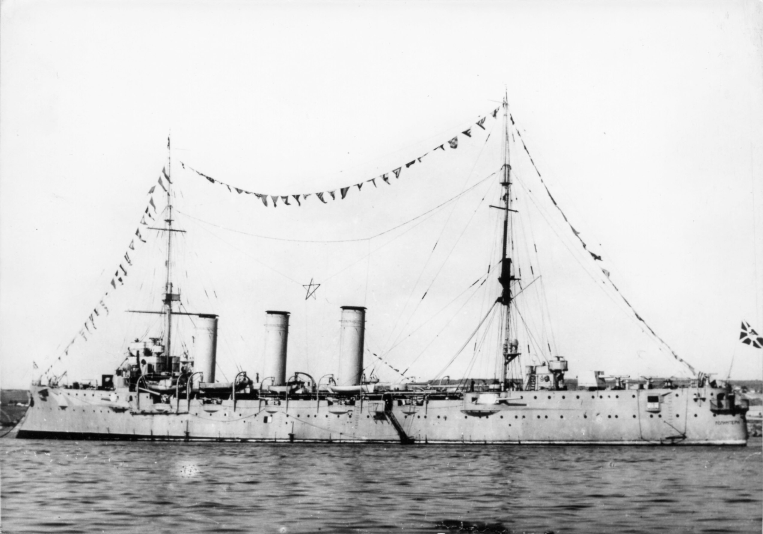 Cruiser Komintern.